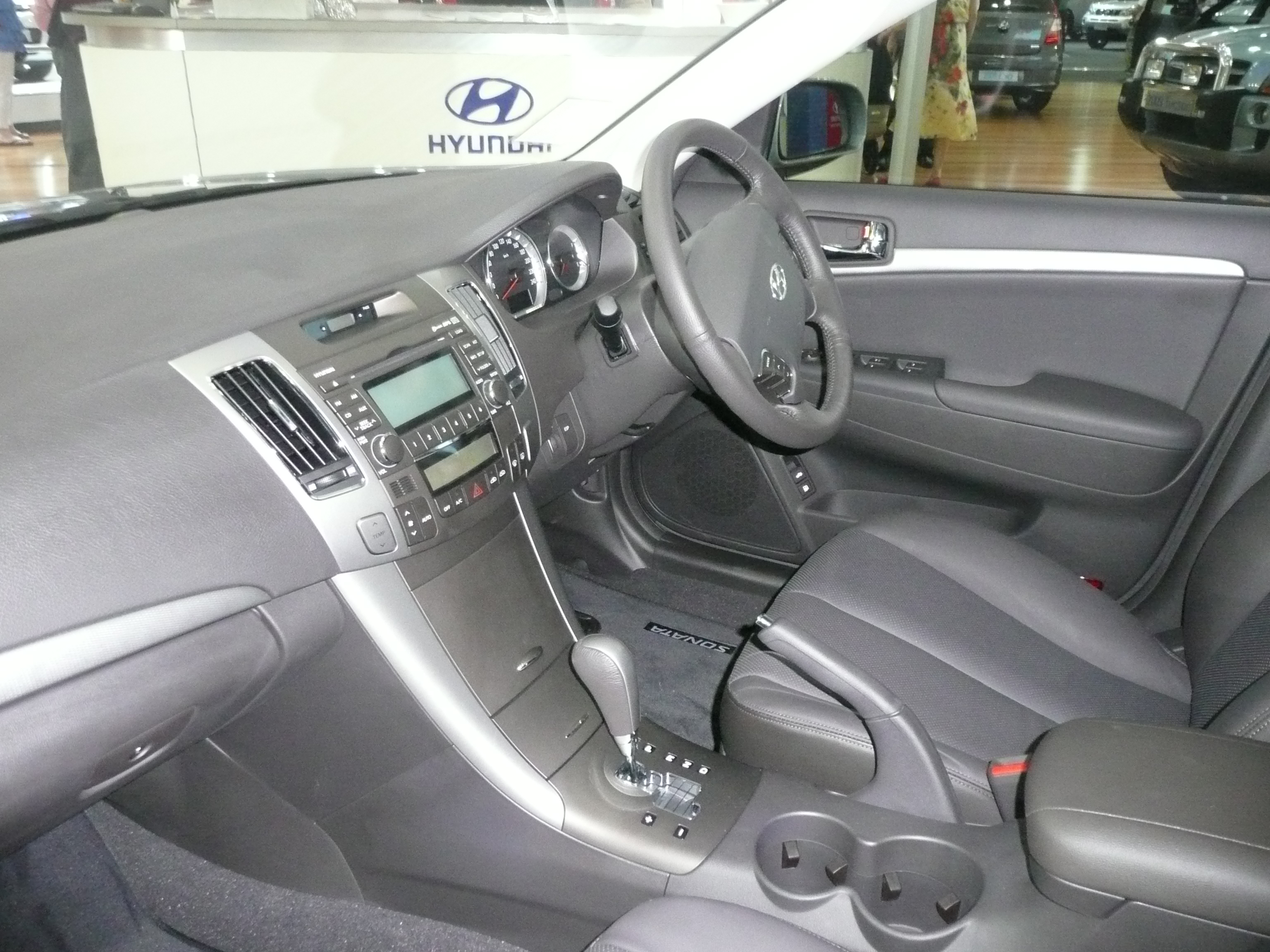 2008 Hyundai Sonata (NF MY09) Elite CRDi sedan. Photographed at the 2008 Australian International Motor Show, Sydney, New South Wales, Australia.